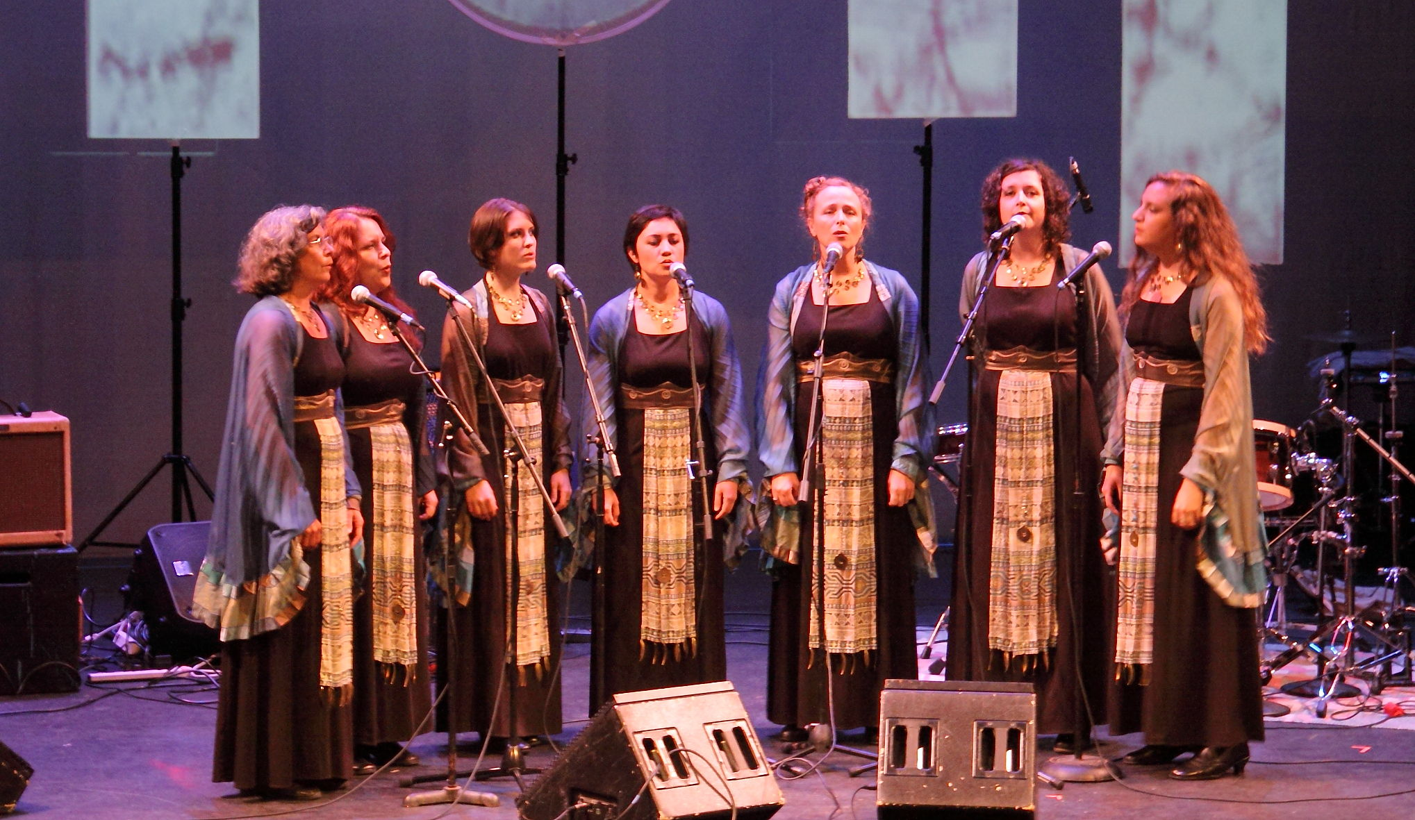 Kitka singing Joni Mitchell's 'Blue'.